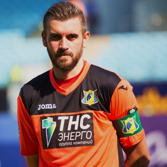 Stipe Pletikosa 08.2014